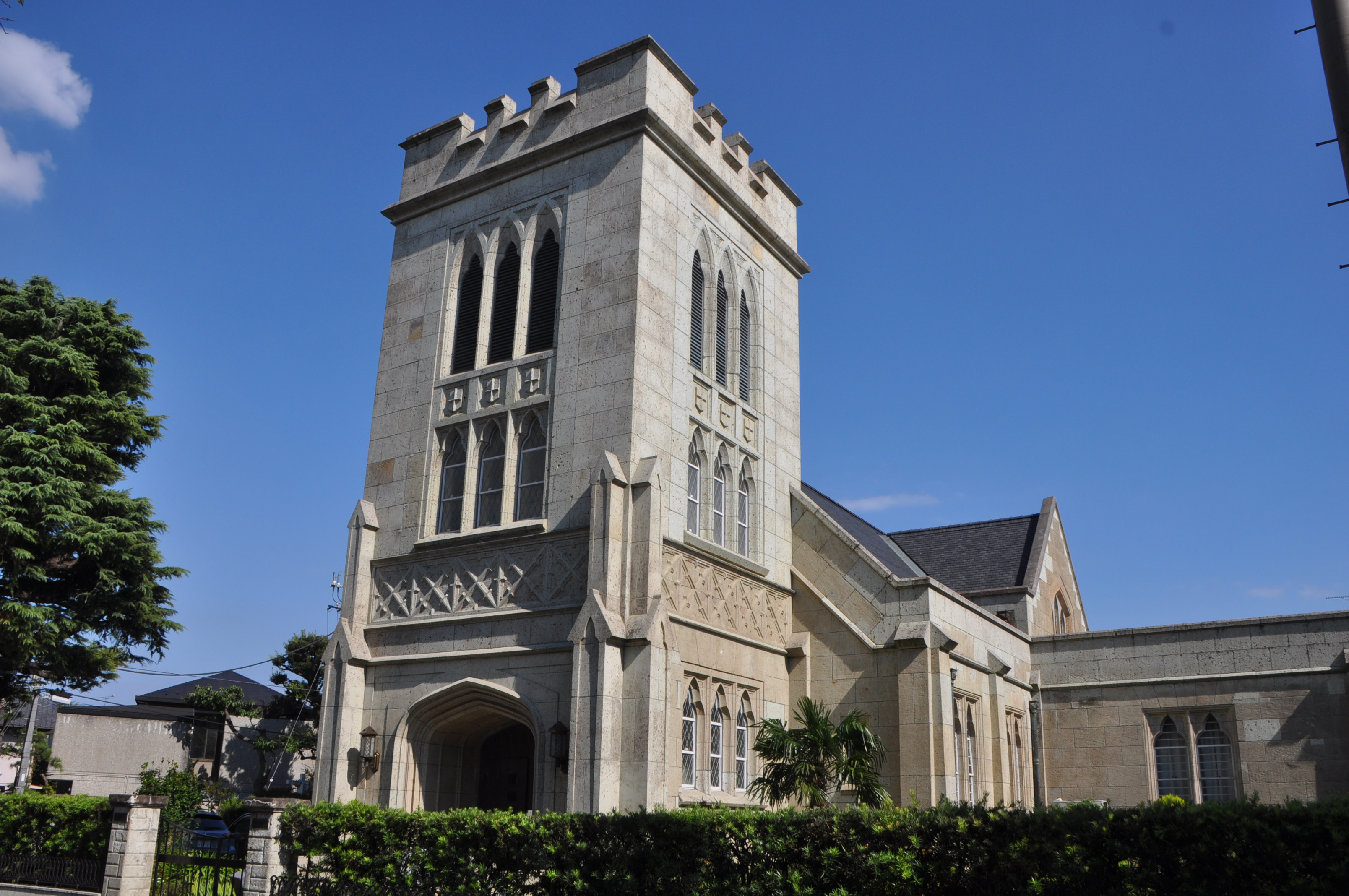 Yokohama Christ Church on the Bluff 2013, an Anglican church